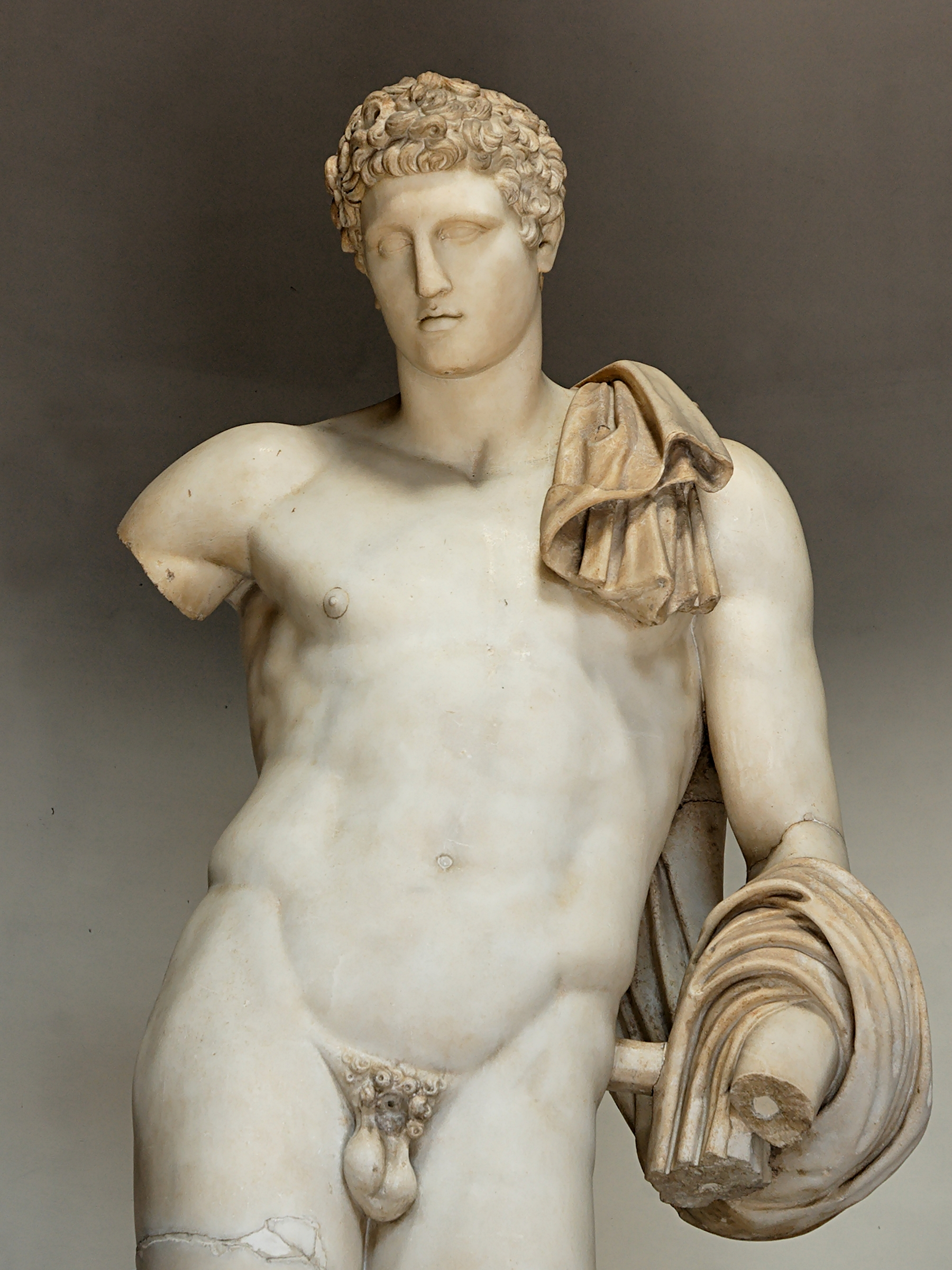 So-called “Belvedere Antinous”, actually a statue of Hermes of the Andros-Farnese type. The identification of Hermes is justified by the traveller's cloak, the bearing of the god and by comparison with copies found on graves, stressing Hermes's role as psychopompus (conductor of souls). Roman artwork, Hadrian's era, copy or a Greek bronze original of the 4th century BC.